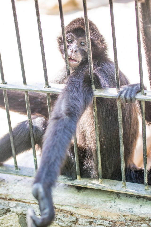 spider monkey